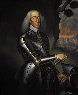 General Thomas Dalyell, c 1599 - 1685. Soldier in Russia and Commander-in-Chief in Scotland